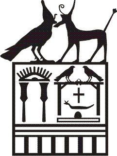 Horus-Seth name of Khasekhemwy